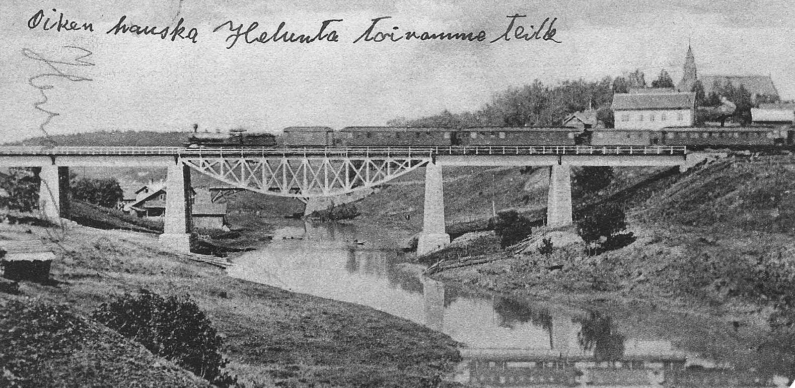 Halikon railway bridge over the river in 1908